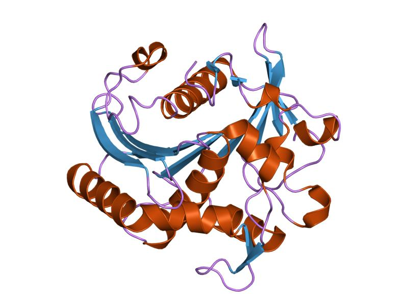 Cartoon representation of the molecular structure of protein registered with 3tgl code.